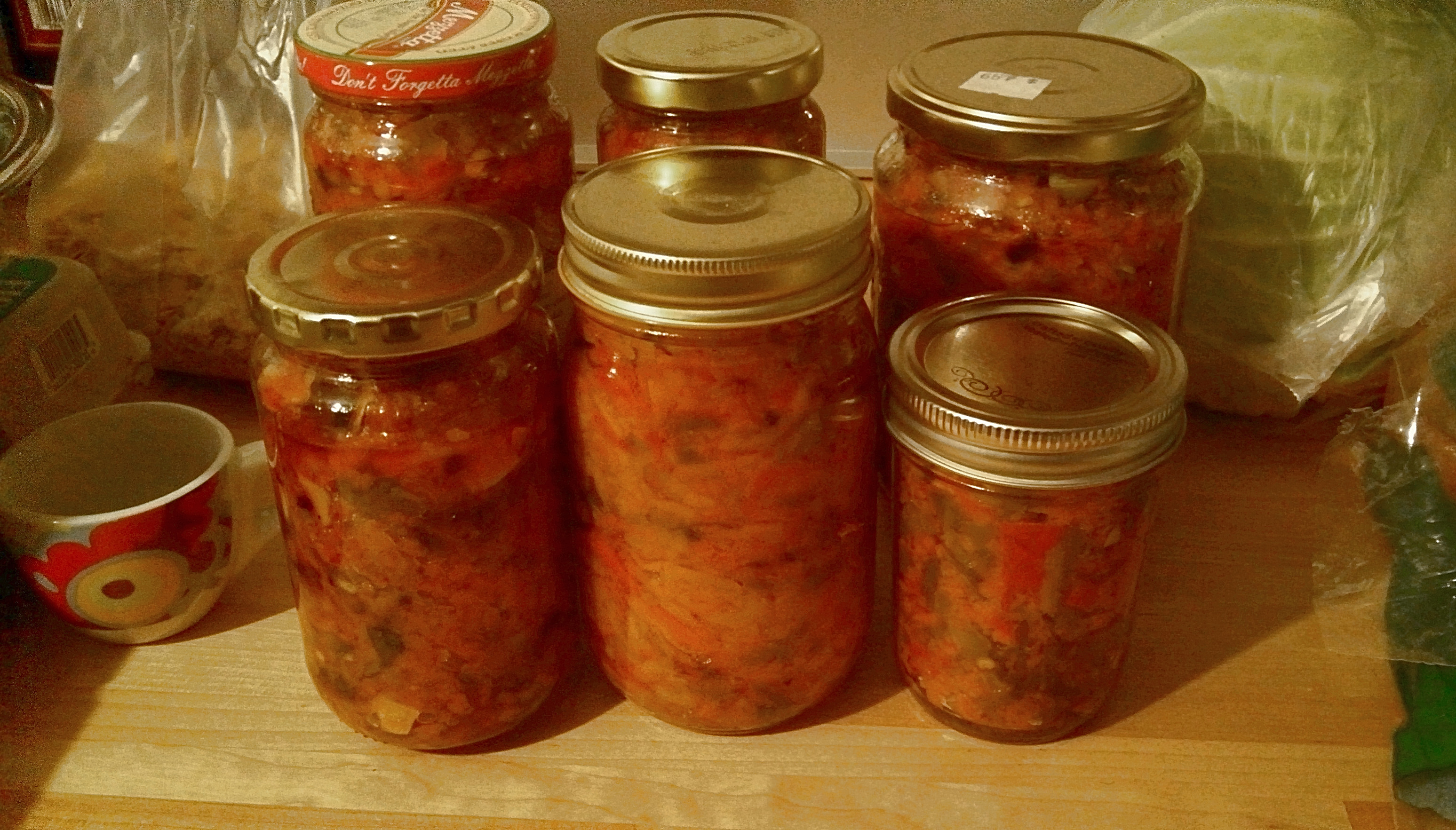 Homemade ajvar or pinđur with bell peppers, carrots (or some with sweet potatoes) and other ingredients.